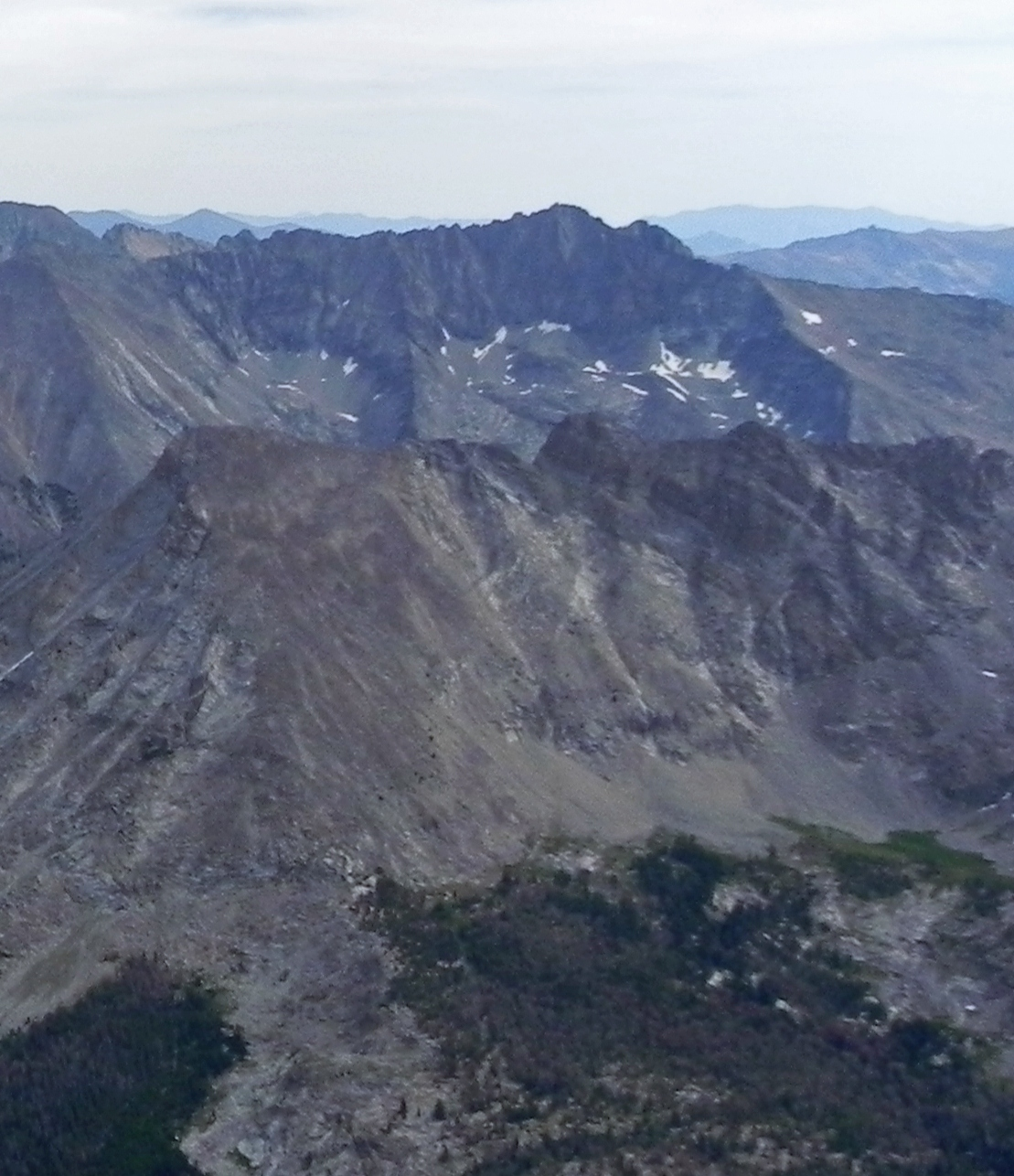 Brocky Peak in the background and Howard Peak in front of it in the Pioneer Mountains of Idaho viewed from the summit of Hyndman Peak.